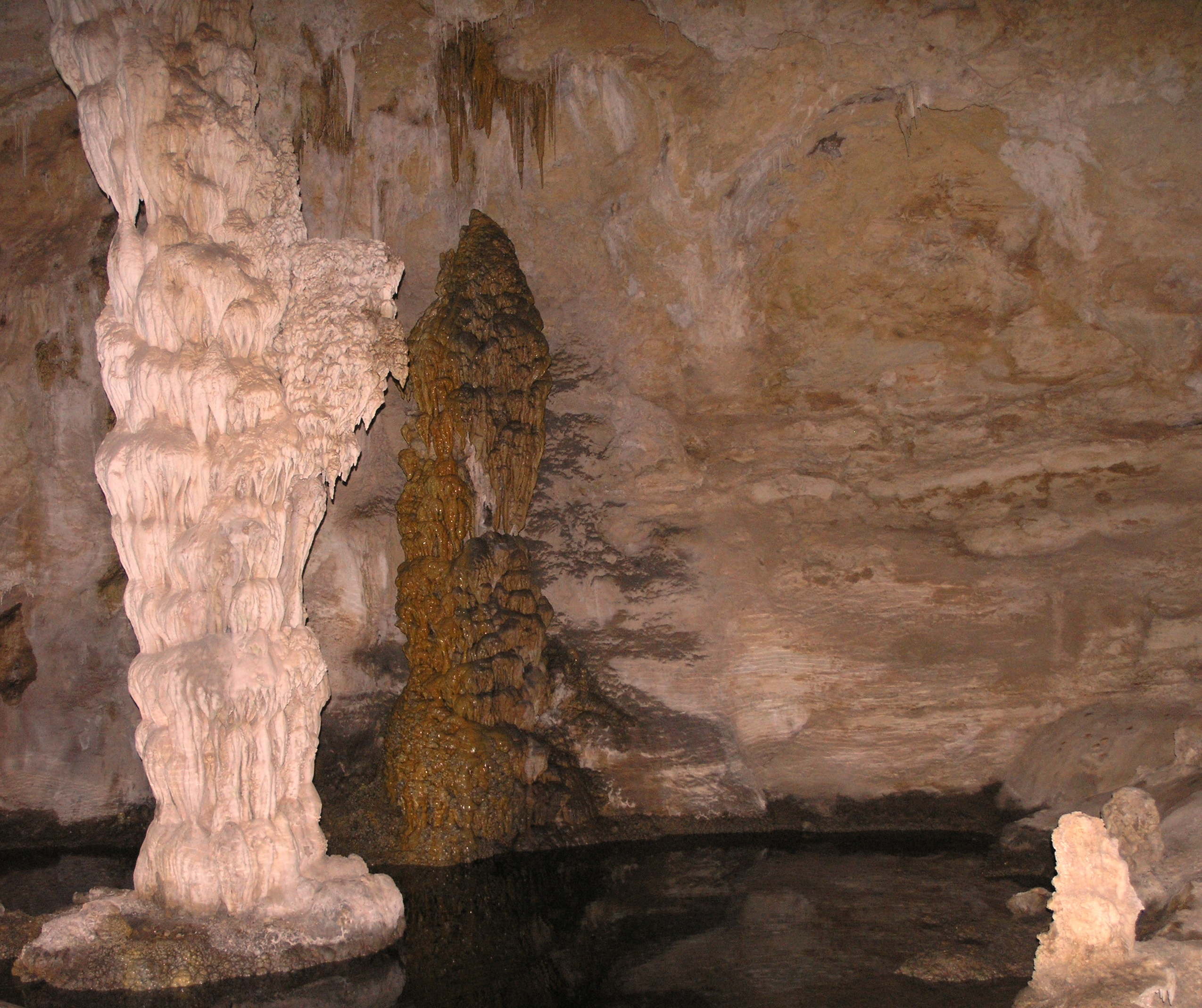 Carlsbad Caverns National Park